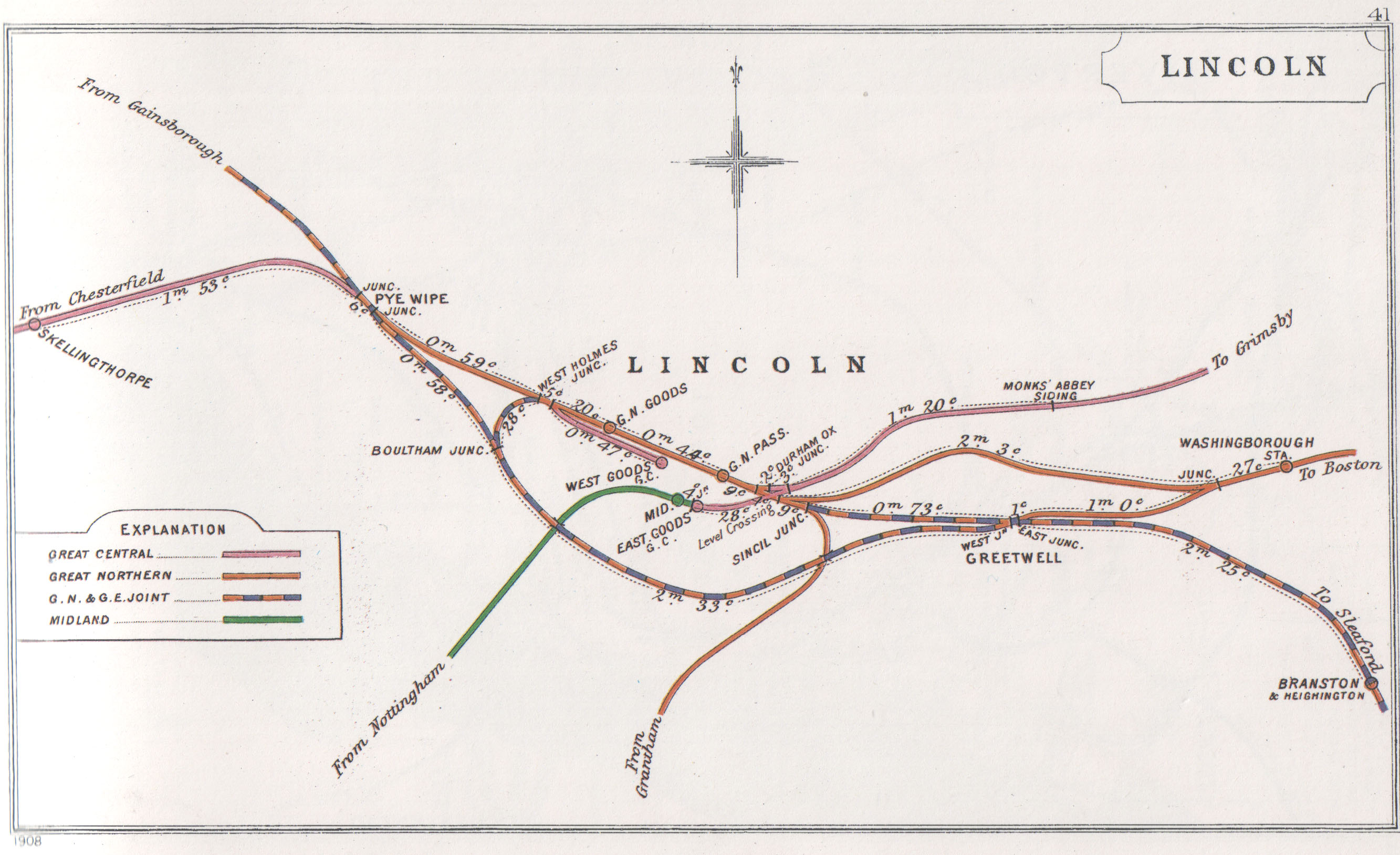 Pre Grouping railway junction around Lincoln